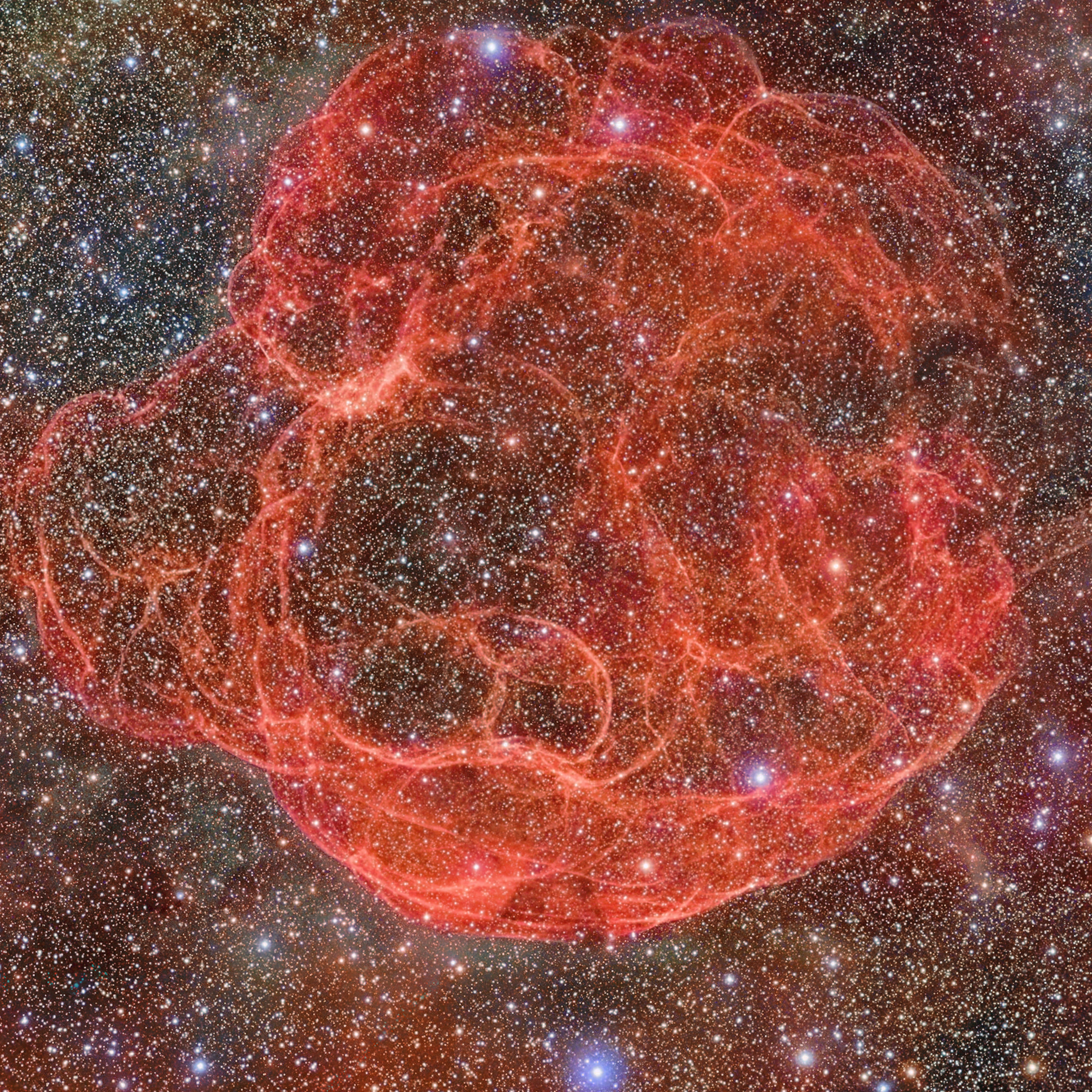 Sh2-240 / Simeis 147 / SNR G180.0-01.7 [Credit: Giuseppe Donatiello / Tim Stone / WISE] RA center: 84.727° DEC center: 27.813° Simeis 147, also known as the Spaghetti Nebula, SNR G180.0-01.7 or Sharpless 2-240, is a supernova remnant (SNR) in Auriga and Taurus. Discovered in 1952 at the Crimean Astrophysical Observatory using a 25-inch Schmidt-Cassegrain telescope, it is difficult to observe due to its extremely low brightness. The remnant has an apparent diameter of approximately 3° (as six full moons), at 3000 (±350) light-years and an age of obout 40,000 years.